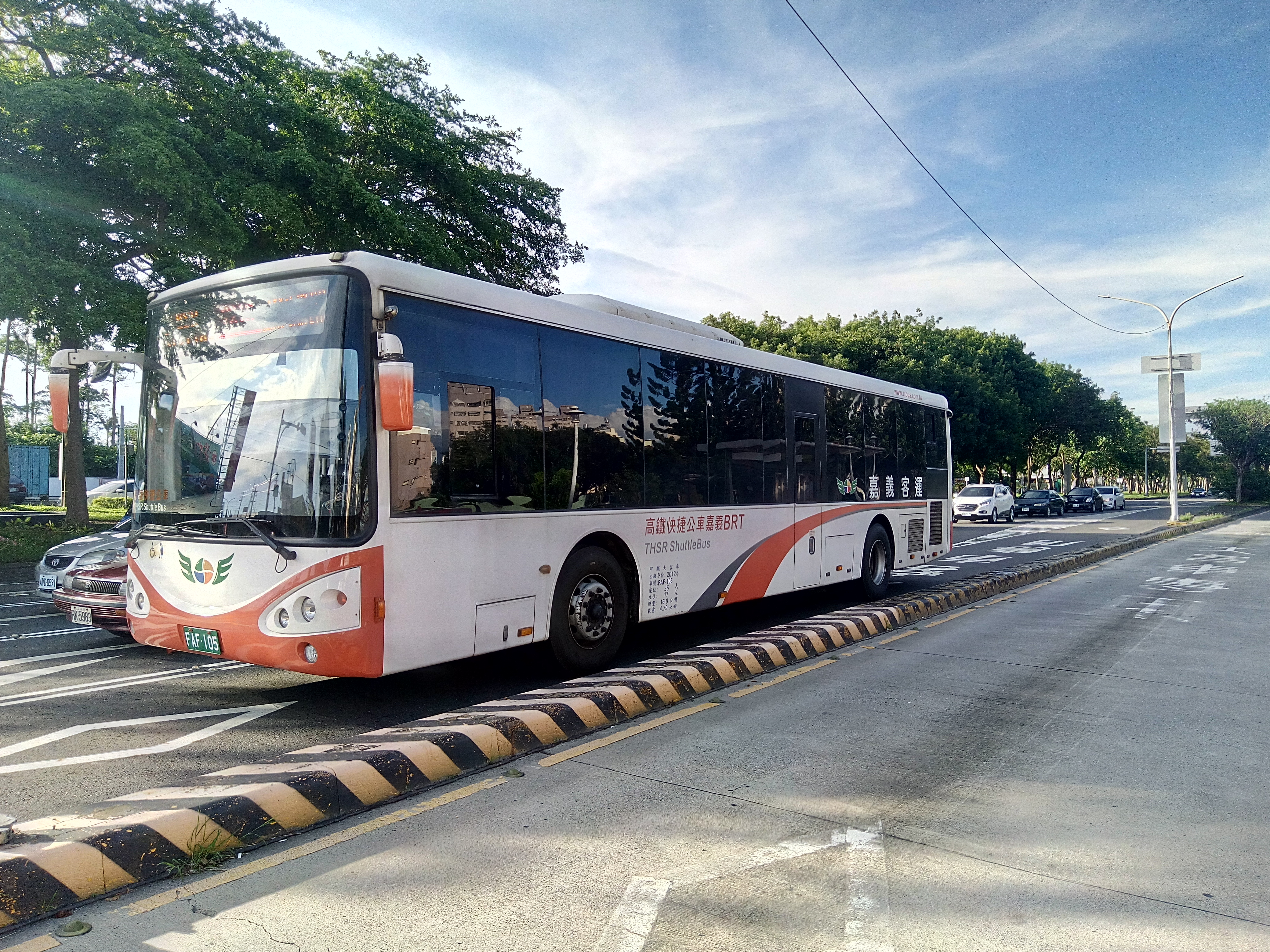 Sunwin nonstep bus of Chiayi BRT FAF-105 in Shishian Peigang Station